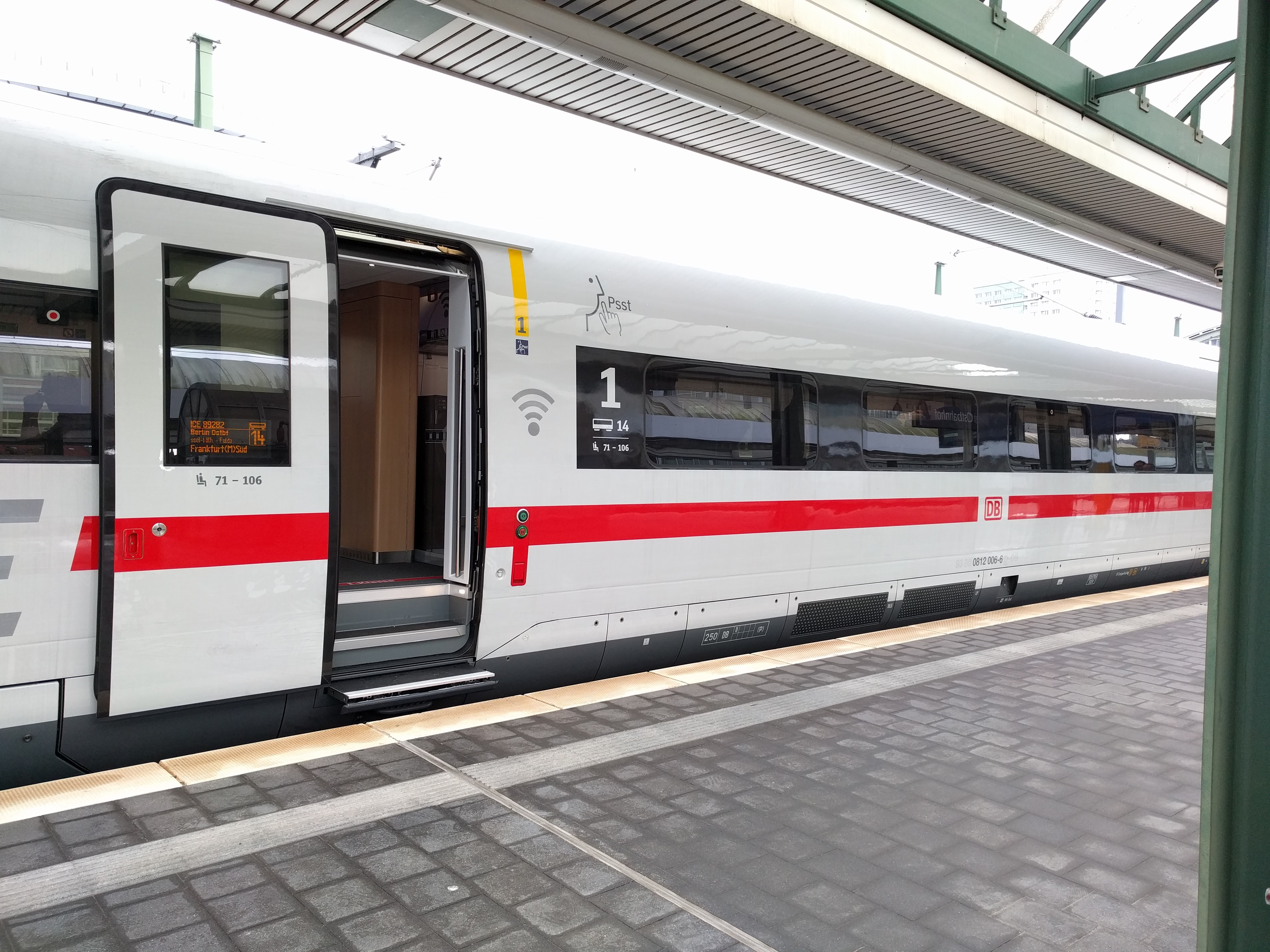 Center coach with open door of Deutsche Bahn, BR 412 ICE 4 train, heading to Frankfurt Main, Süd, taken in Berlin Ostbahnhof